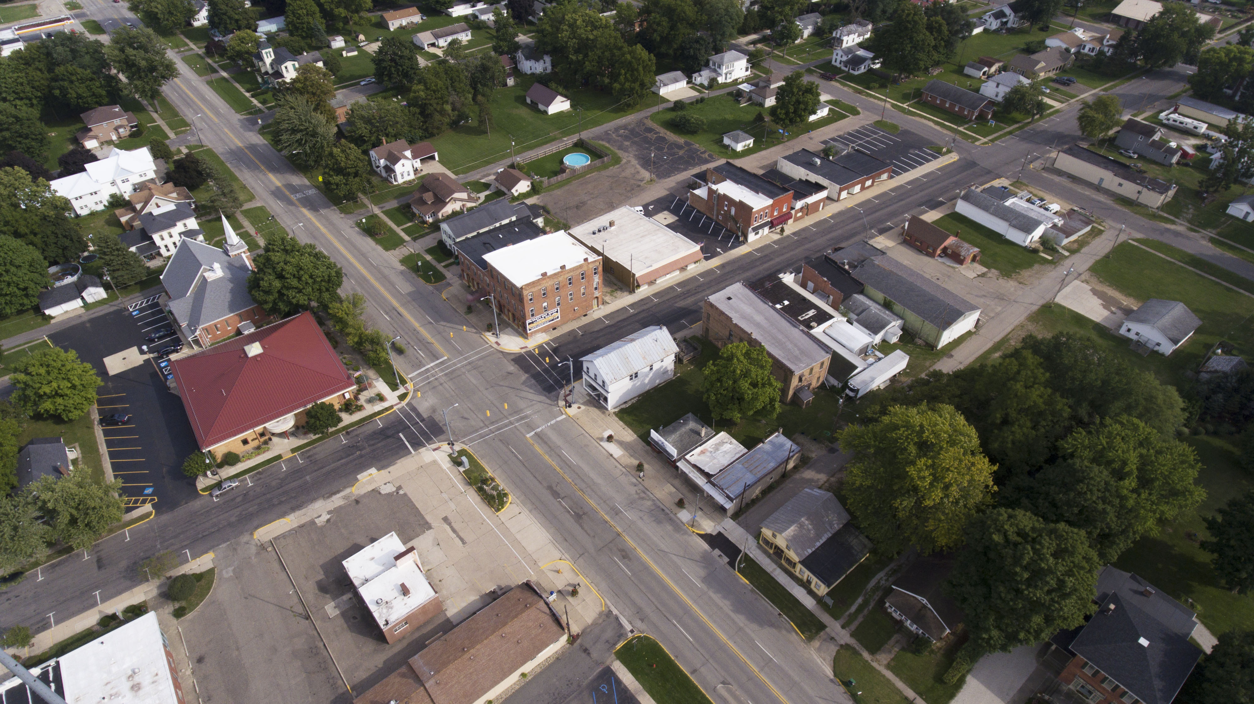 This is an Aerial Photo of White Pigeon, Michigan taken on September 20, 2016 by an FAA Certified Drone Pilot under 14 CFR 107. This photo can be used for Commercial Purpose.